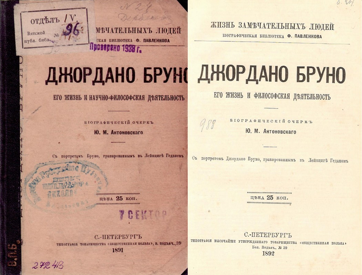 Cover and title page: J. Antonovsky. Giordano Bruno. — SPb. F. Pavlenkov ed. 1891